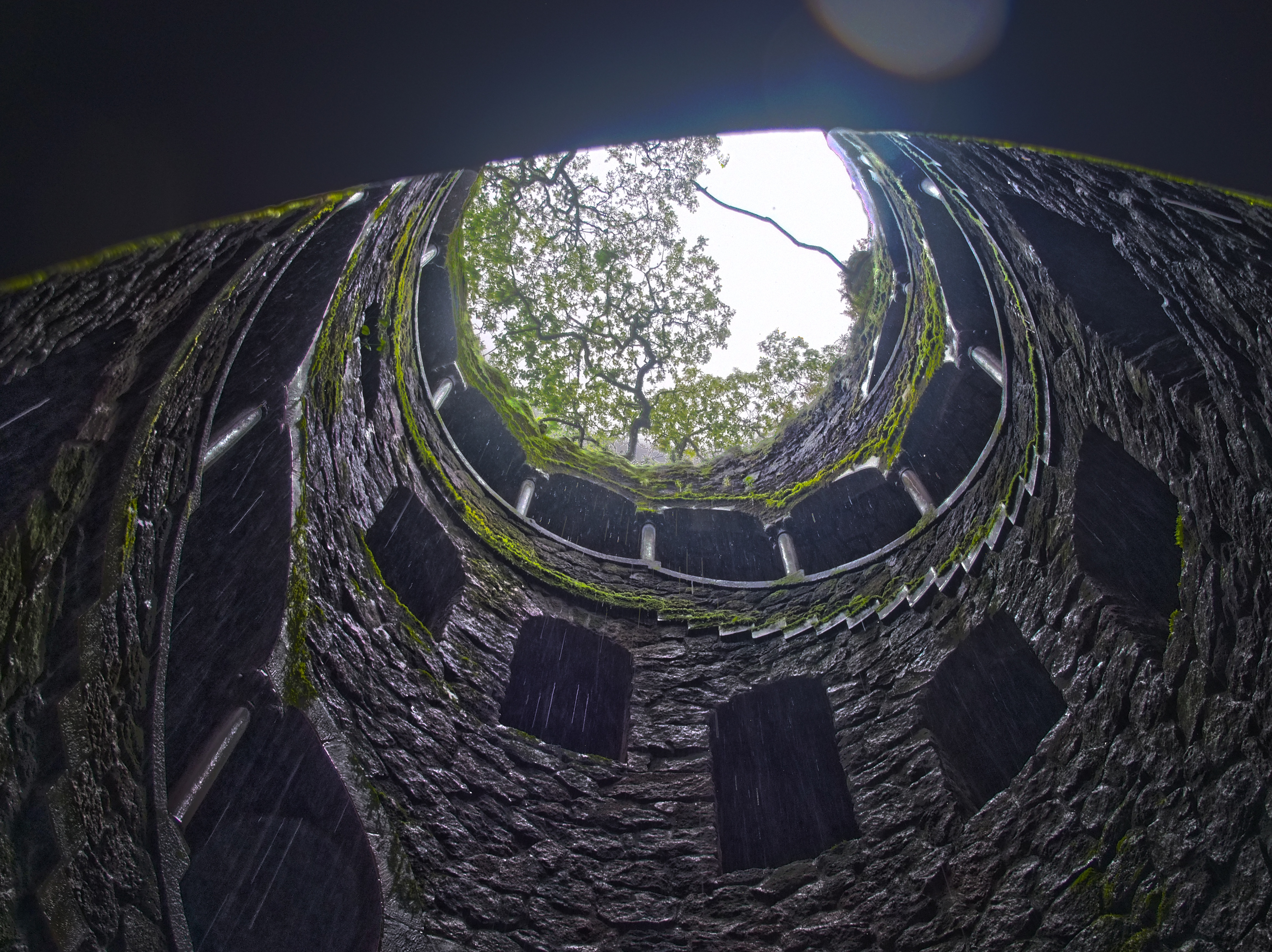 Rain down the initiation well at Quinta da Regaleira; HDR